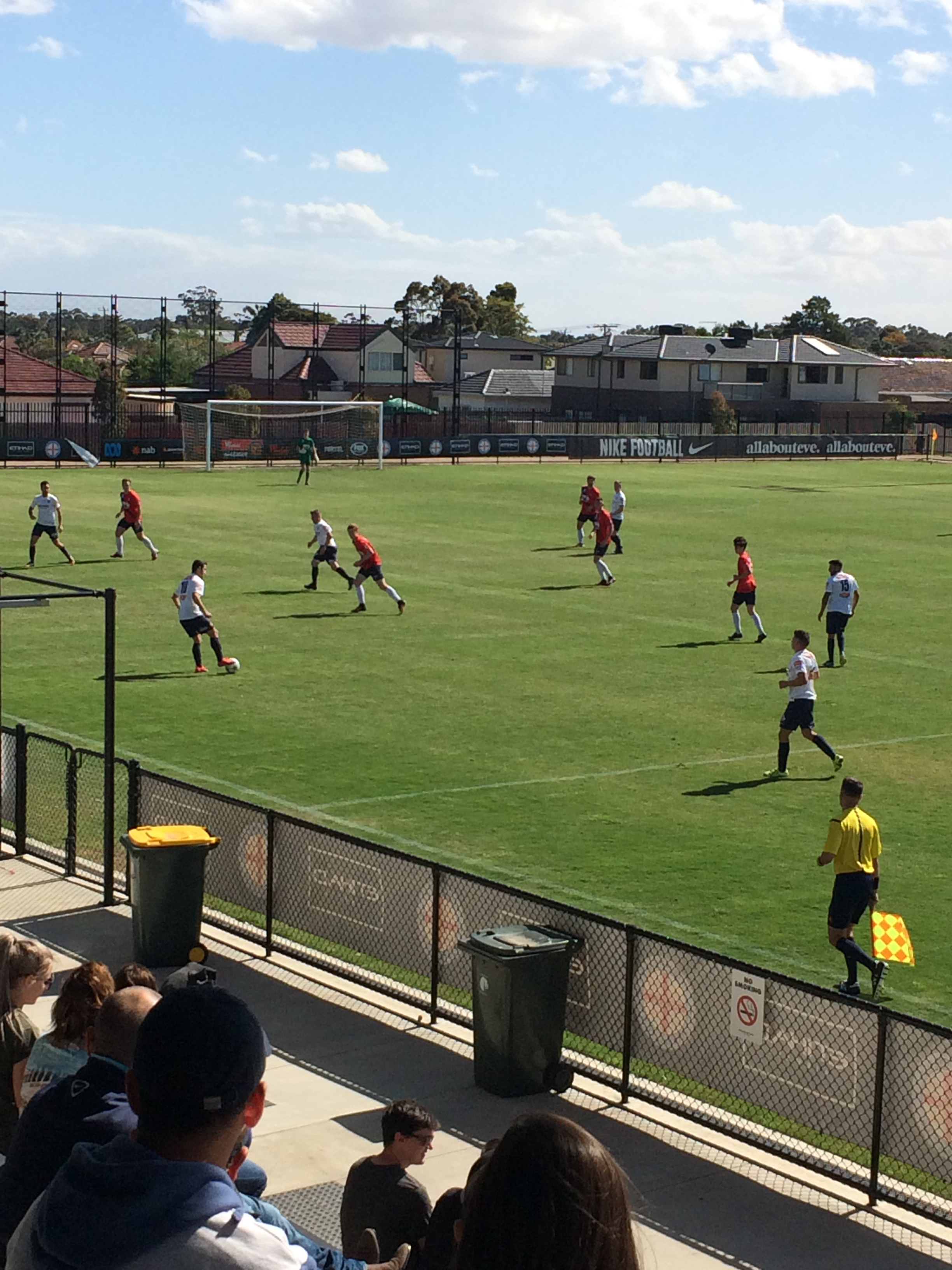 the picture shows a Pascoe Vale player dribbling the ball towards Pascoe Vale's attacking end of the pitch.